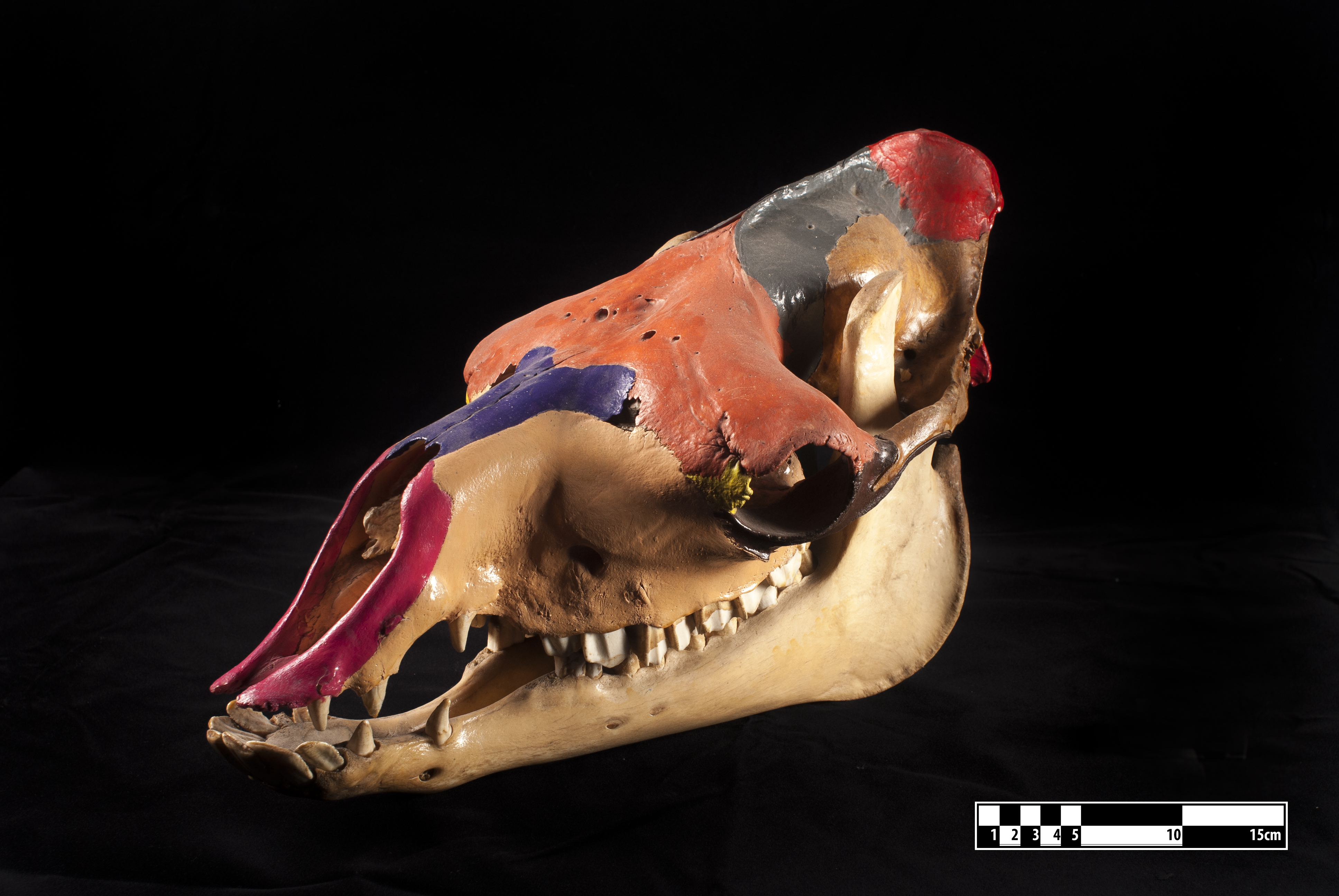 Camel Skull. Camelus bactrianus Specimen of skull prepared by the bone maceration technique and on display at the Museum of Veterinary Anatomy FMVZ USP. This file was published as the result of a partnership between the Museum of Veterinary Anatomy FMVZ USP, the RIDC NeuroMat and the Wikimedia Community User Group Brasil. This GLAM project is reported. Photography: Museum of Veterinary Anatomy FMVZ USP. Author: Wagner Souza e Silva.